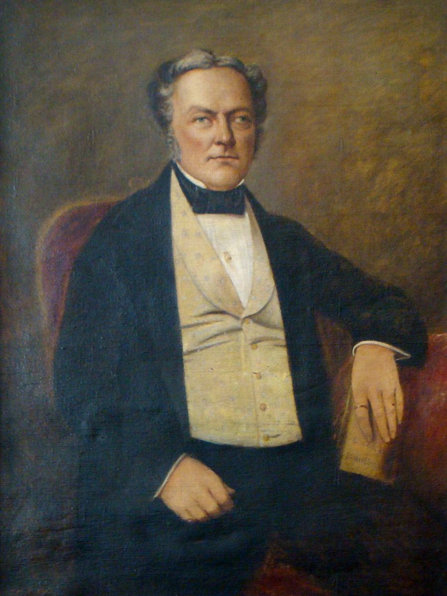 Heinrich Titot († 1871), Bürgermeister von Heilbronn // city mayor of Heilbronn, germany. Contemporary painting